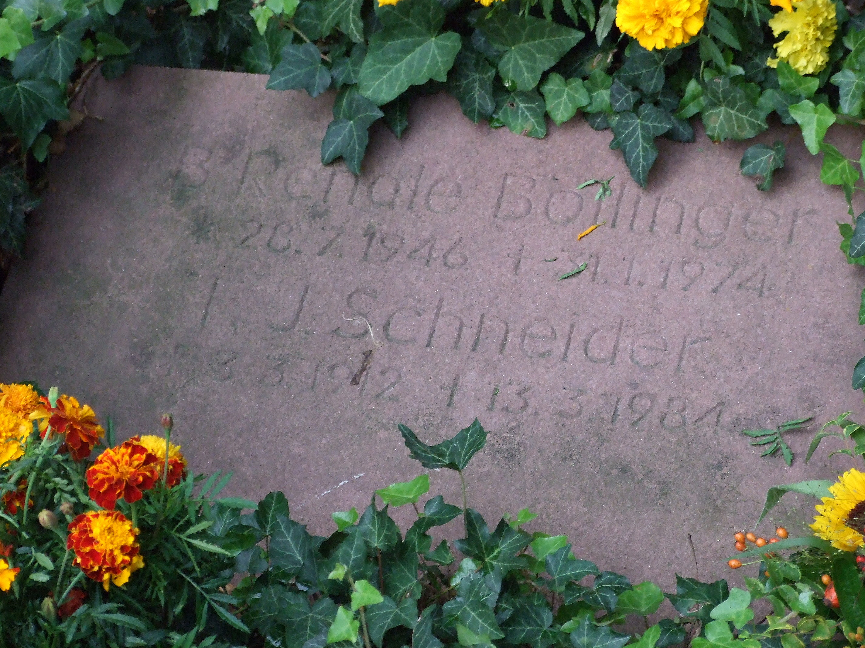 Family grave of Franz-Joseph Schneider (03.03.1912-13.03.1984), member of Gruppe 47 and initiator of the yearly literary award Stadtschreiber von Bergen for (german writing) authors; cemetery of Bergen in Frankfurt am Main Bergen-Enkheim